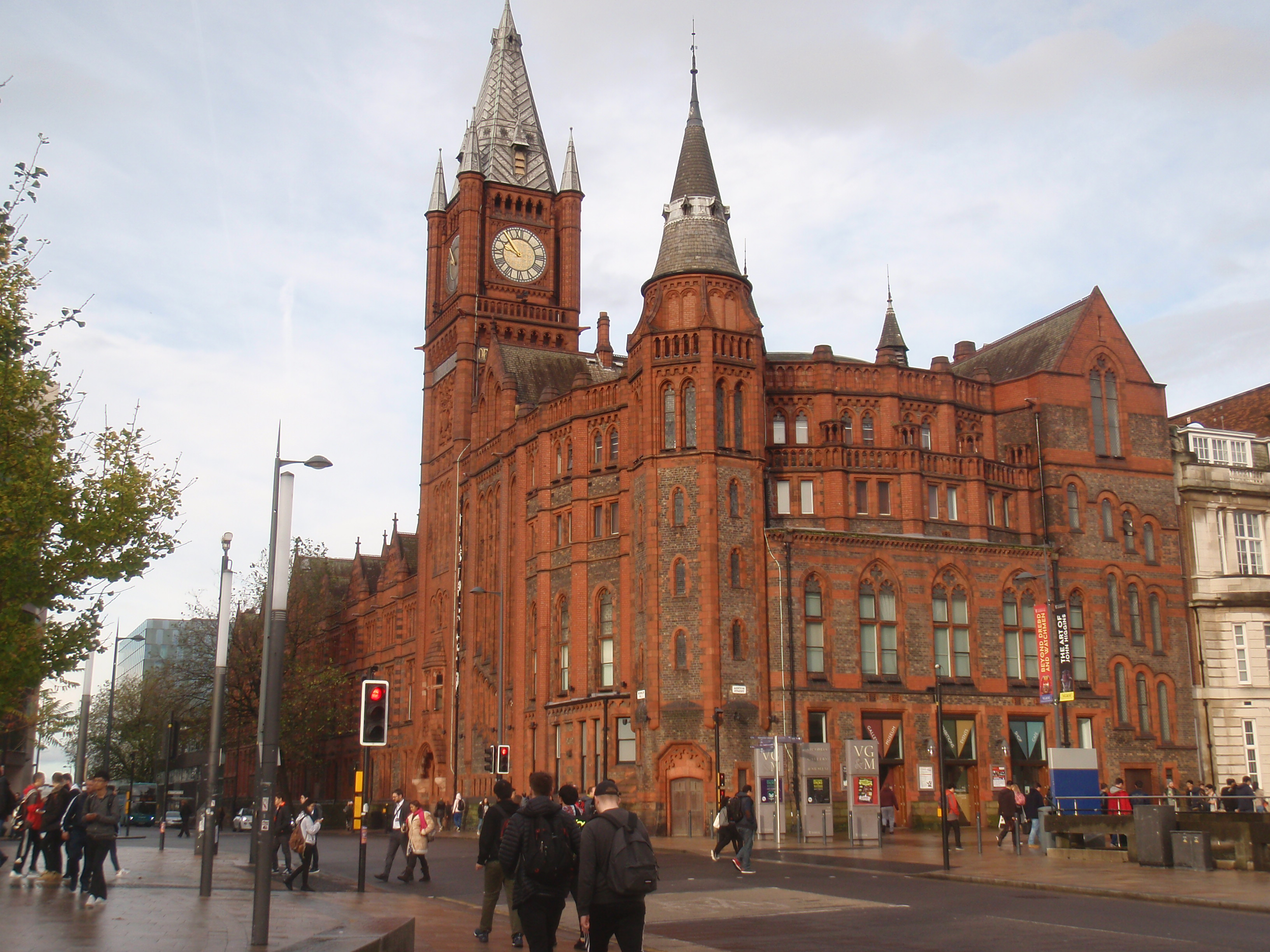 Liverpool